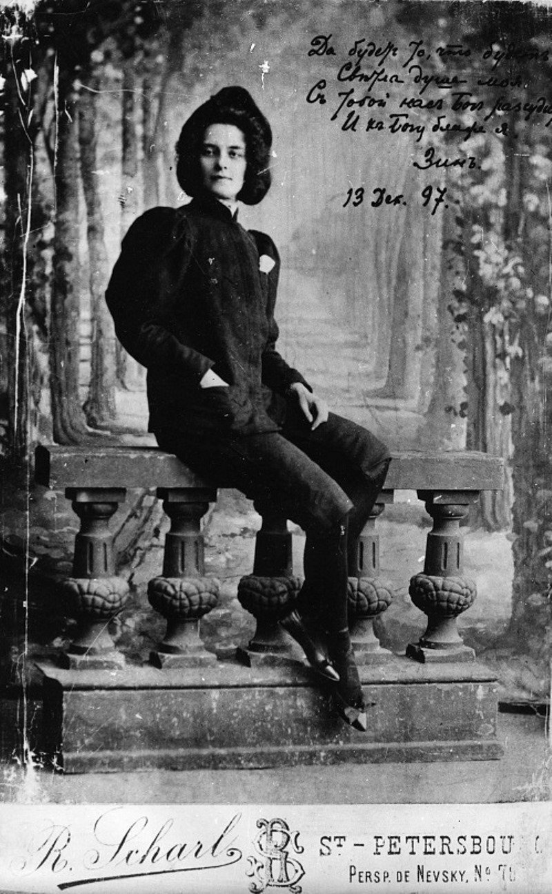 Portrait of Zinaida Gippius (1869-1945)